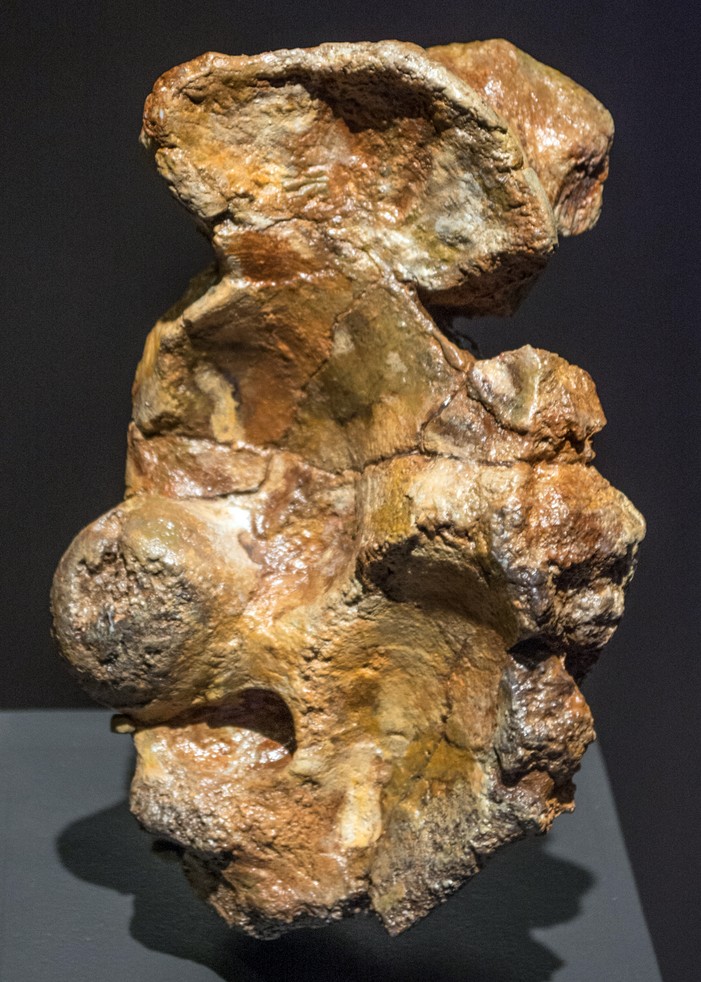 Cast of a Hatzegopteryx thambema wrist bone. On display as part of the exhibit "Pterosaurs: Flight in the Age of Dinosaurs" at the Cleveland Natural History Museum in Cleveland, Ohio, in the United States. This pterosaur, of which only a handful of bones have been found, was the largest in world history. It had an estimated wingspan of 33 to 40 feet. This animal lived about 67 million years ago. This fossil was found in the Sebes formation in the Hațeg Basin in Romania. This is a cast; the fossil itself is held by the Transylvanian Museum Society.